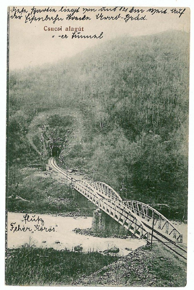 The railway bridge over the Crişul Alb river and the tunnel from Vârfurile (Csúcs), Austria-Hungary (now Arad County, Romania)